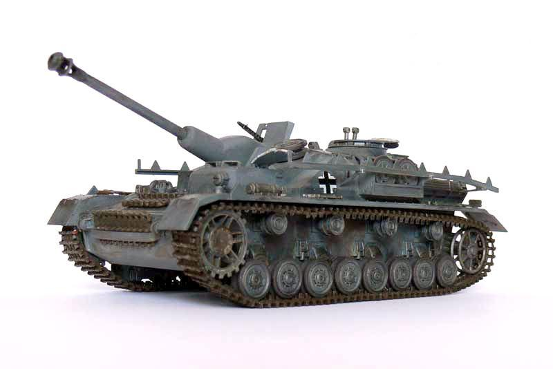 Dreamafter created this image. .